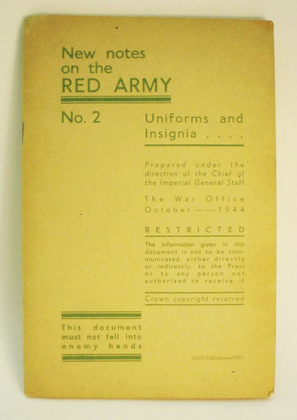 Front cover of New Notes on the Red Army, published 1944. British military / field manual, I believe.